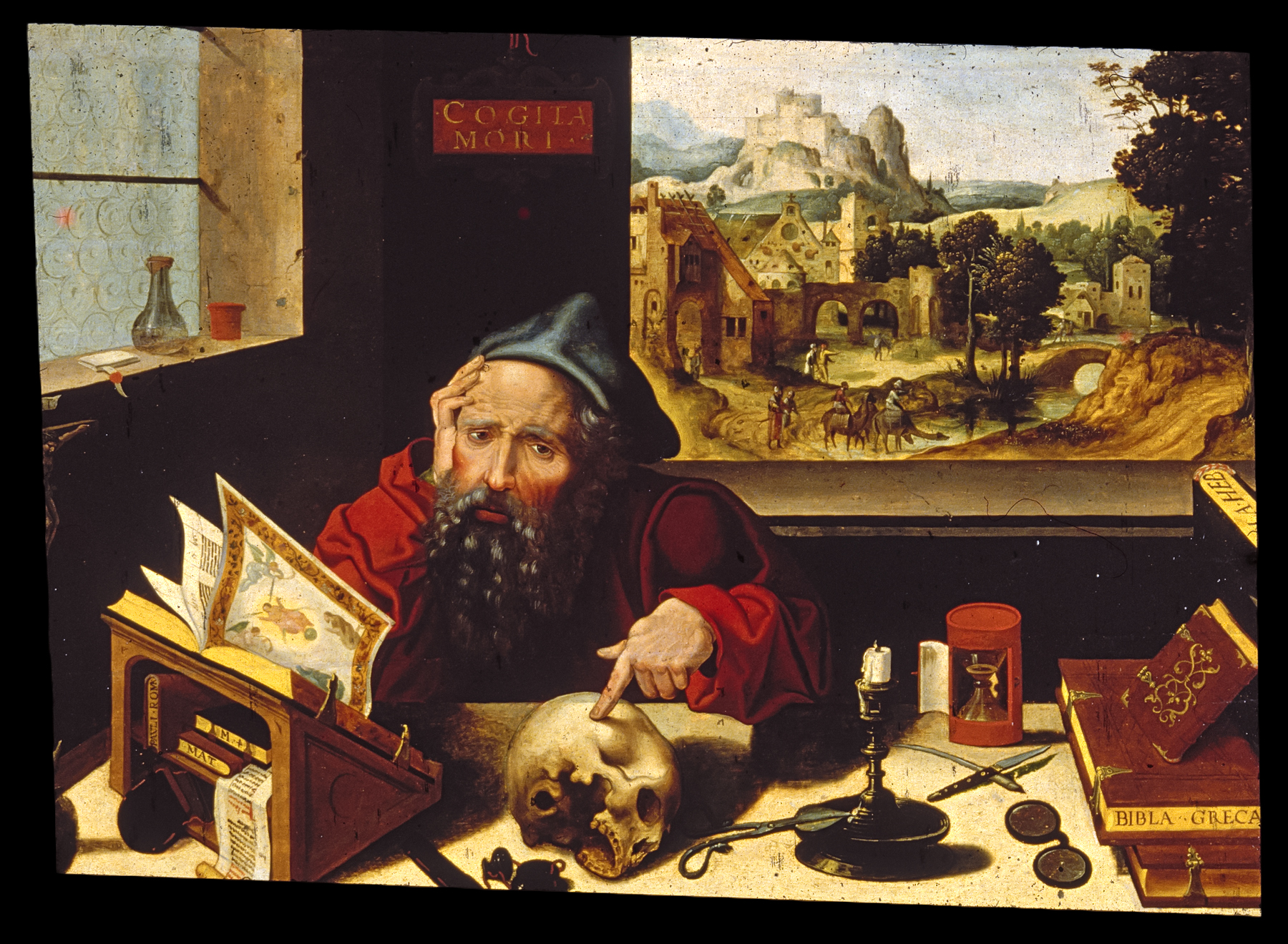 St. Jerome (ca. 341-420), the greatest Christian scholar of the classics, is revered for his translation of the Bible from the original Greek and Hebrew into Latin. He completed it in a monastery in Palestine, which the artist has suggested in the view through the window by adding camels to an otherwise Flemish landscape. The admonition that Jerome has fixed to the wall, "Cogita Mori" (Think upon death), is made explicit by the skull. His Bible is open to an image of the Last Judgment, while the hourglass and candle, objects often found on a desk, are further reminders of the passage of time and the imminence of death. Pieter Coecke van Aelst's large studio in Antwerp produced many variations on this subject.